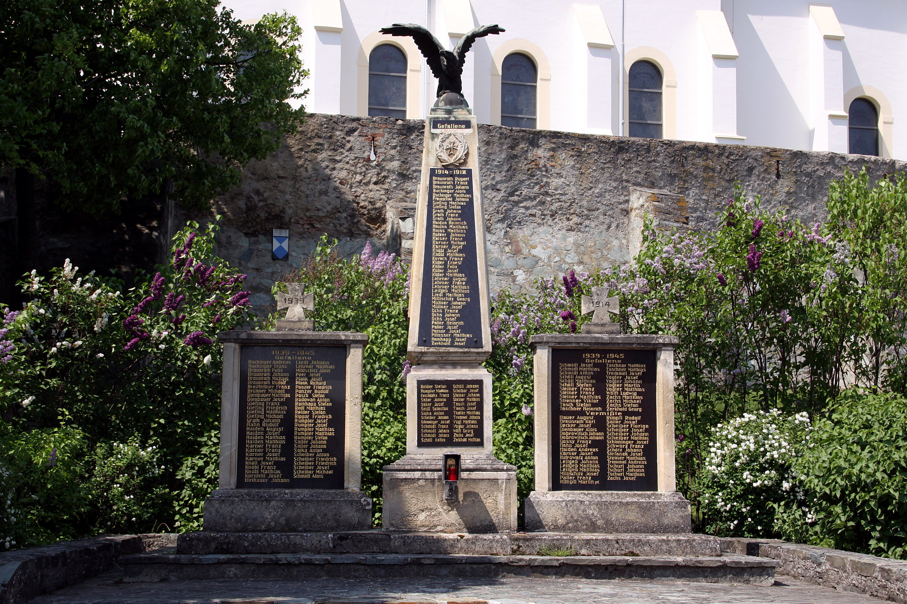 War memorial - Marz Object location47° 43′ 06.2″ N, 16° 25′ 00″ E